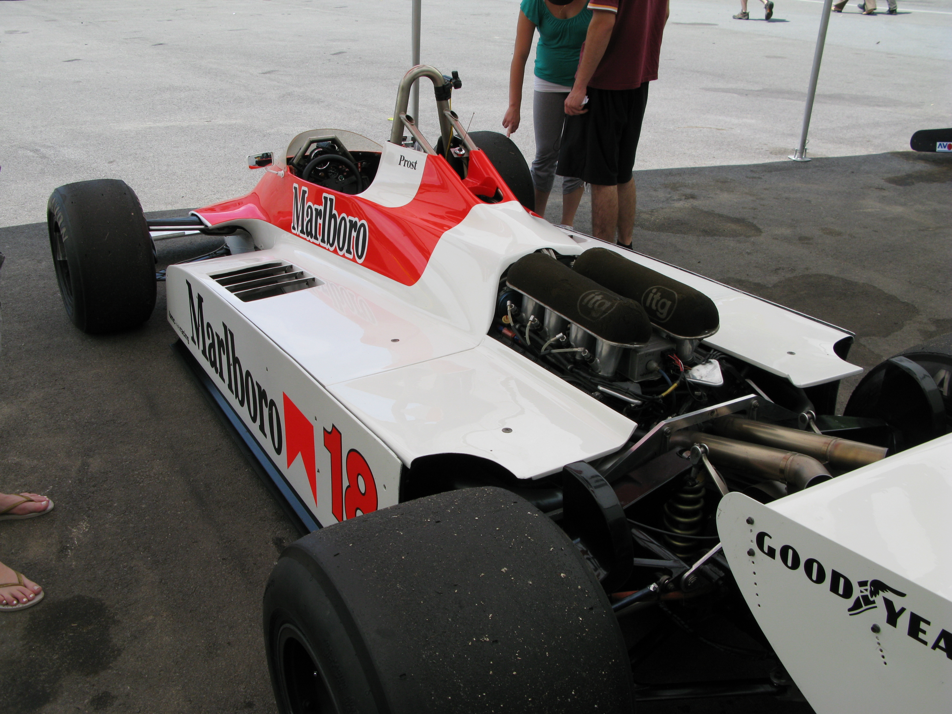 The unique McLaren M30 Formula One car. Pictured in the paddock during the Sommet des Légends race meeting, Circuit Mont-Trembant, Quebec, Canada. July 2009.